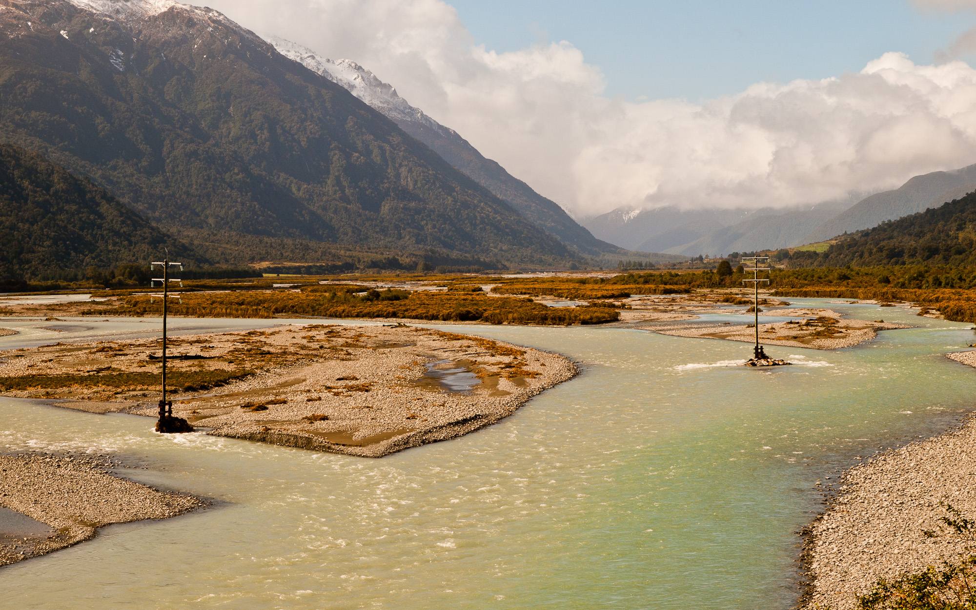 Taramakau River Valley, northwest of Arthur's Pass, New Zealand